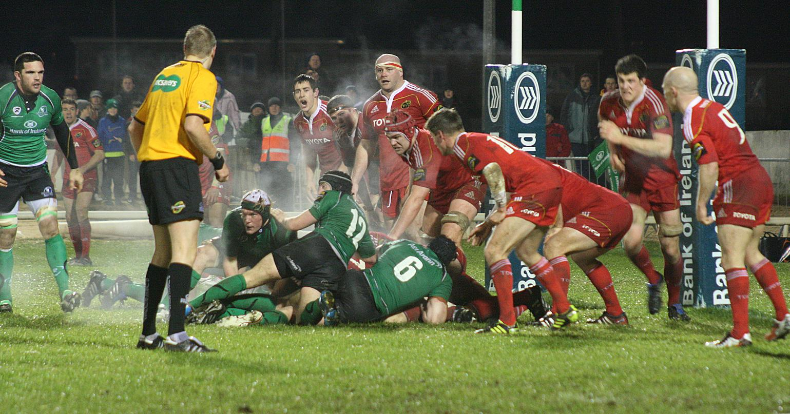 Magners League match, 27/12/2010. Time was expired at the end of the game and Connacht pounded the Munster line looking for the winning try, but couldn't score.